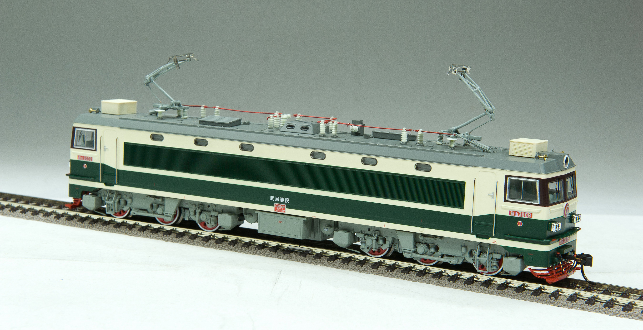 A China Railway SS3 electrical locomotive of HO scale.